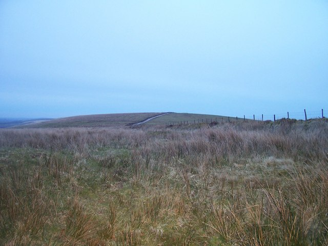 Exmoor : Kinsford Gate Looking up towards the hill - on the SatNav I had this was classed as a mountain peak.